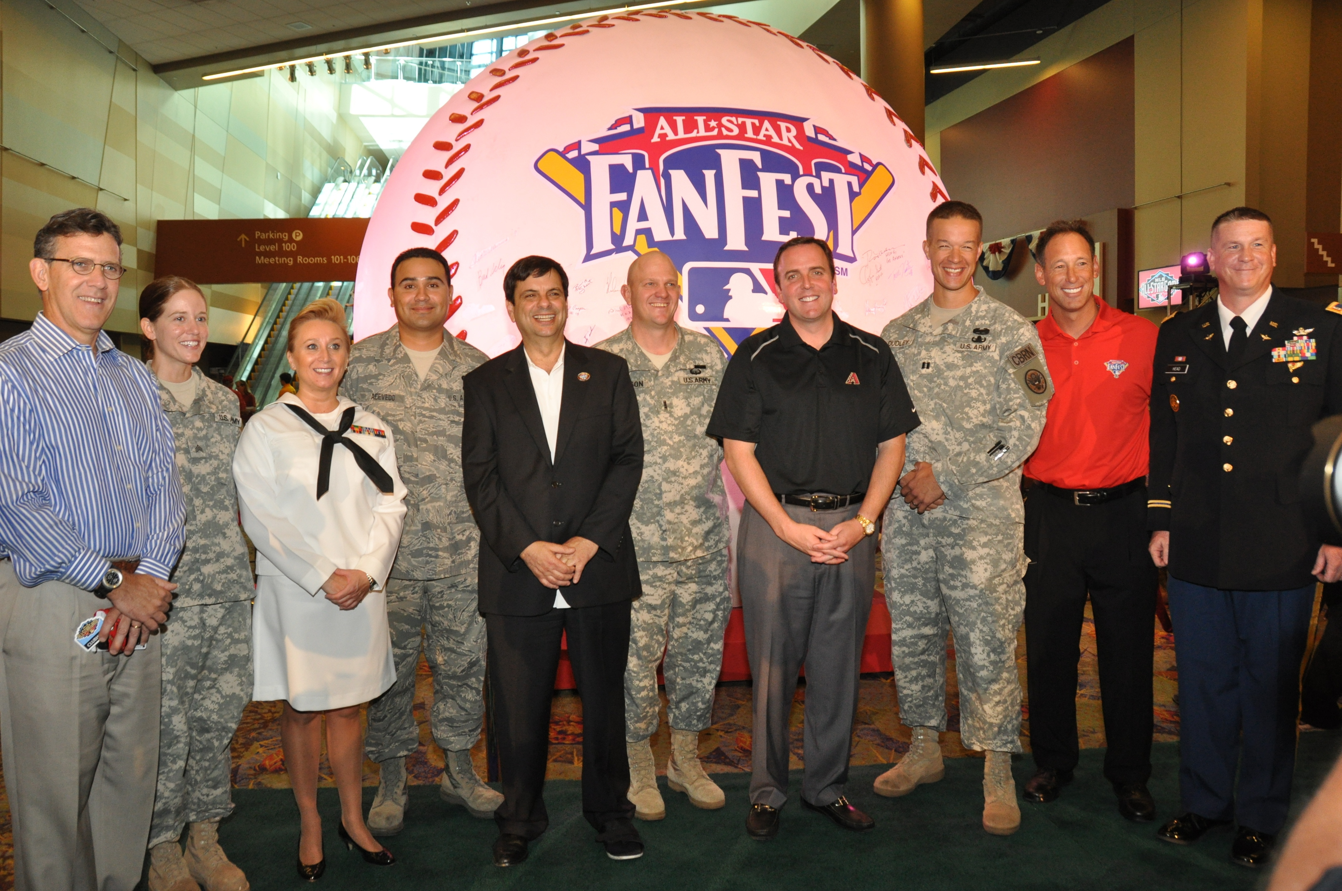 From left: Major League Baseball Executive Vice President for Business Tom Brosnan, Army Sgt. Kimberly A. Hesterman, Navy Petty Officer 1st Class Doreen D. Hamilton, Air Force Master Sgt. Jaime L. Acevedo, Phoenix Mayor Phil Gordon, Army Chief Warrant Officer 3 Duane S. Jameson, Diamondbacks President and CEO Derrick Hall, Army Capt. Brian T. Dudley, Diamondbacks All-Star Luis Gonzalez and Army Chief Warrant Officer 2 Mark C. Head gather in front of the World's Largest Baseball marking the opening of MLB All-Star FanFest at the Convention Center in Phoenix, July 8.